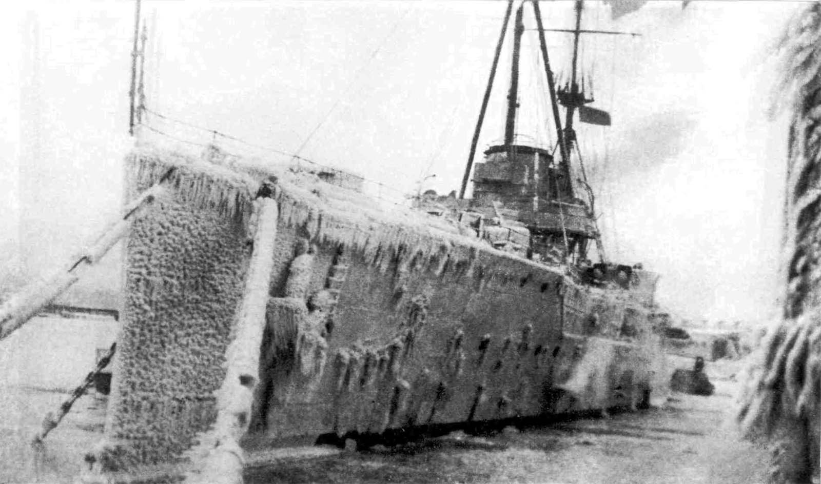 Russian armoured cruiser Ryurik in Kronstadt after the Ice Cruise, 12 April 1918.